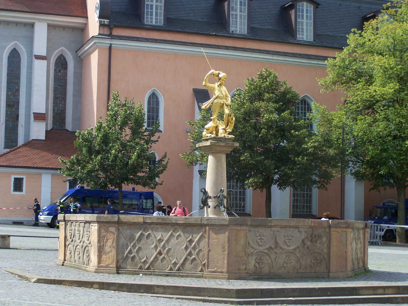 Saint Georg and the dragon at the top of the market place fountain in Eisenach.